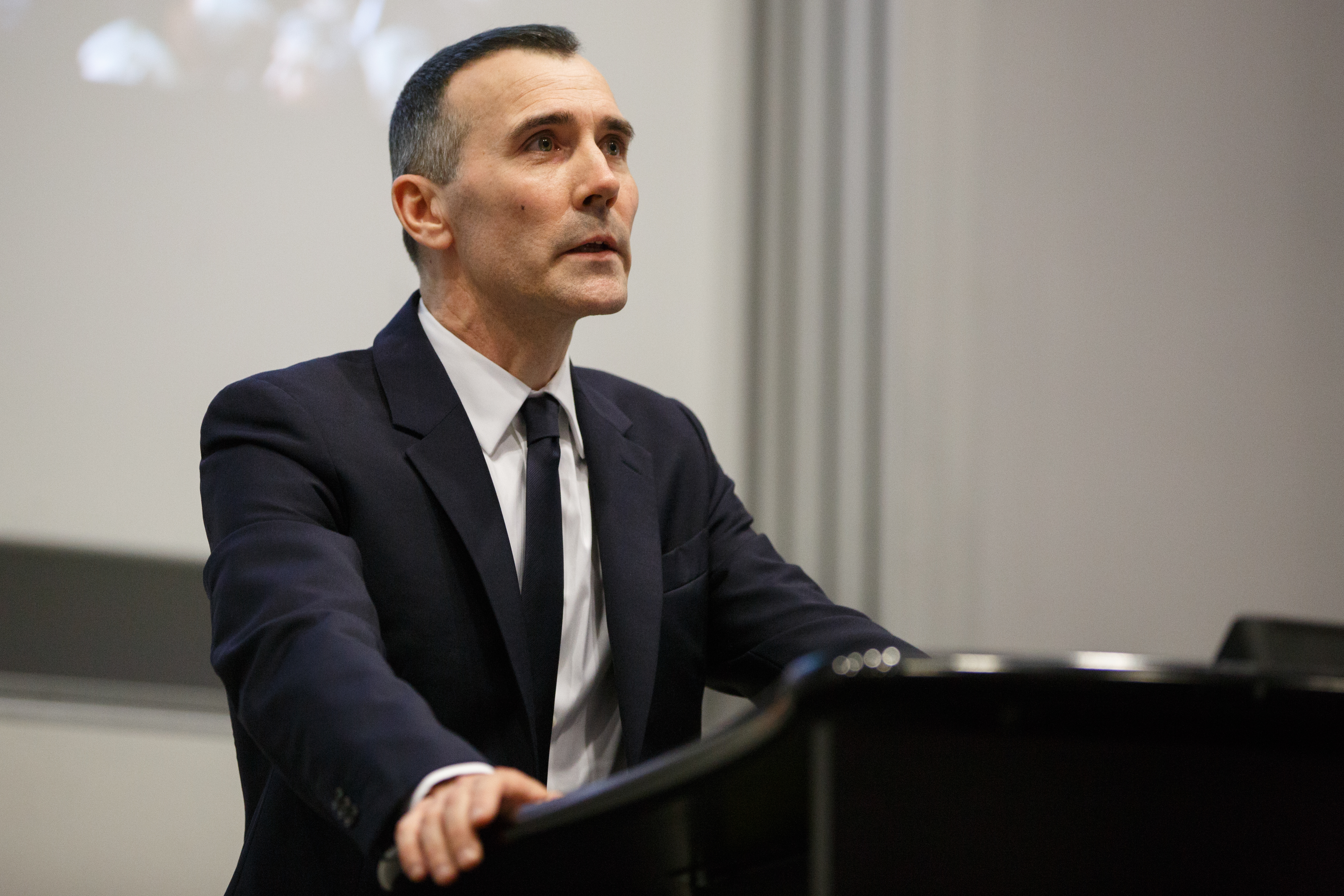 Richard Bourke Lecture May 2016